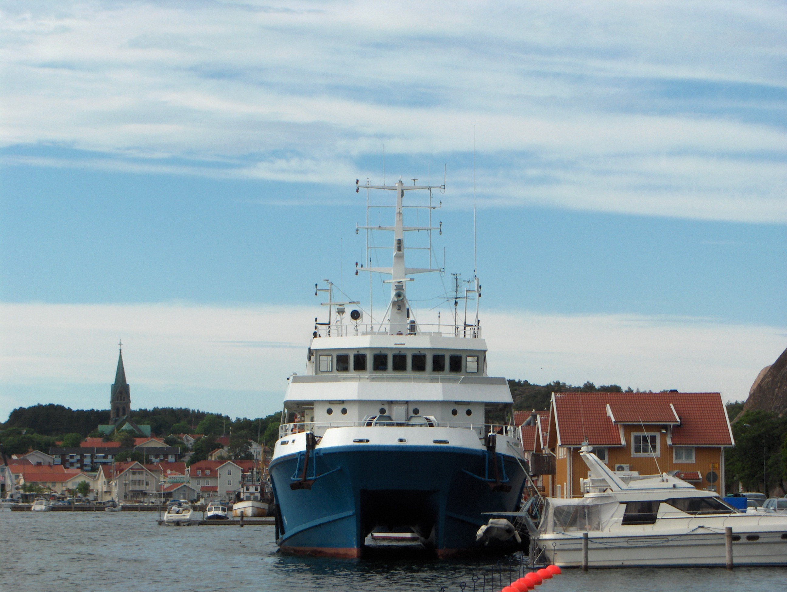 Research Vessel Ocean Surveyor moored in Grebbestad, Sweden.